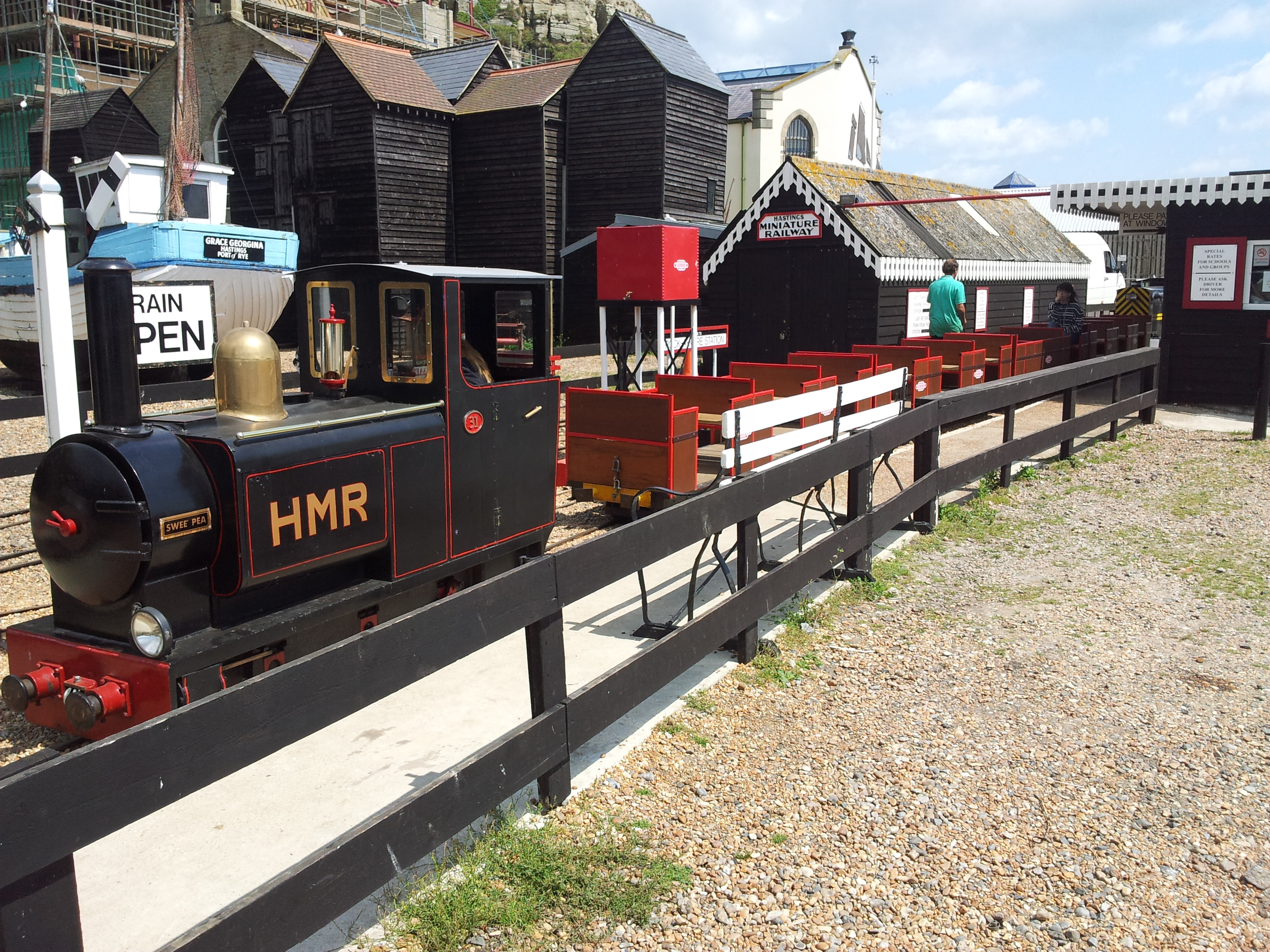 HMR locomotive Swee' Pea at the head of a train at Rock-a-Nore station, the line's eastern terminus